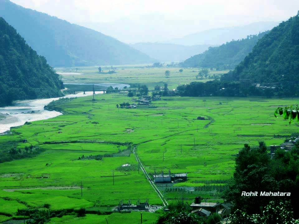 pyuthan fat